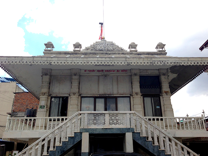 Jain Mandir is located in the heart of Kamalpokhari, Kathmandu.